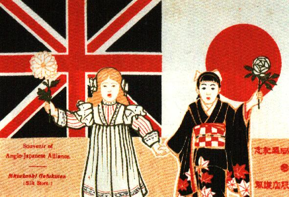 Postcard for renewal of the Anglo-Japanese Alliance in 1905 (issued by Mitsukoshi Department Store, Tokyo)